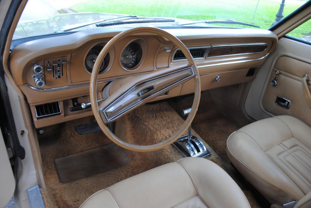 The Ford Maverick was a compact car manufactured from April 1969 to 1977 in the United States, Venezuela (first country outside the States to produce them), Canada, Mexico, and, from 1973 to 1979, in Brazil